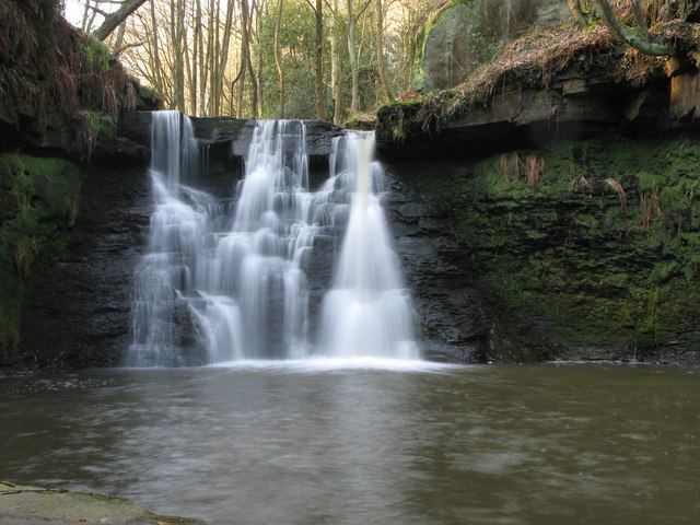 Waterfall, Harden Beck The waterfall has a drop of about 20 feet and lies in a beautiful wooded valley walk from Hewenden to Harden.